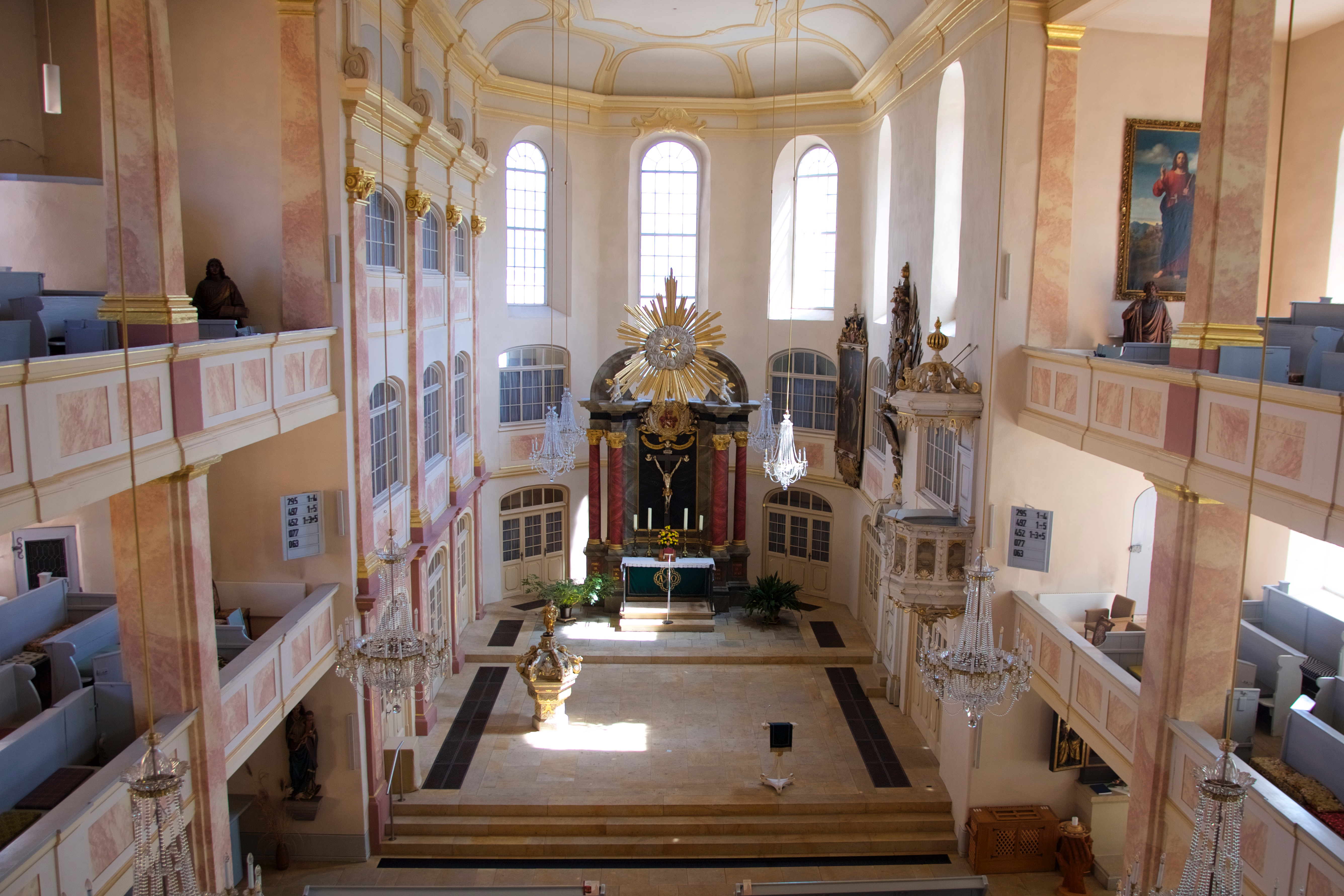 Interior of St George's Church, Glauchau (Germany): View from the organ loft towards the altar.